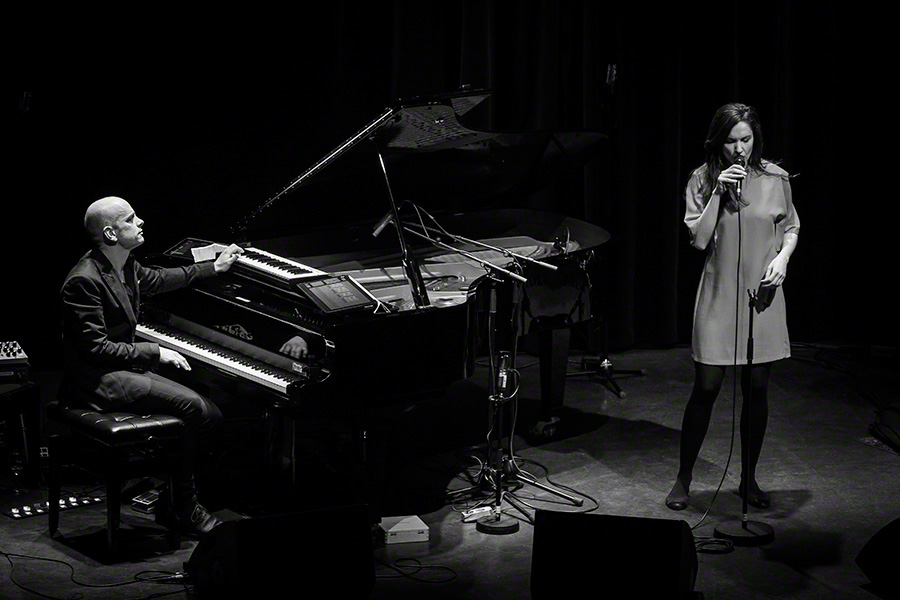 Tord Gustavsen performs at Cosmopolite Scene in Oslo during Vinterjazz 2016. Simin Tander on vocal and Jarle Vespestad on drums.